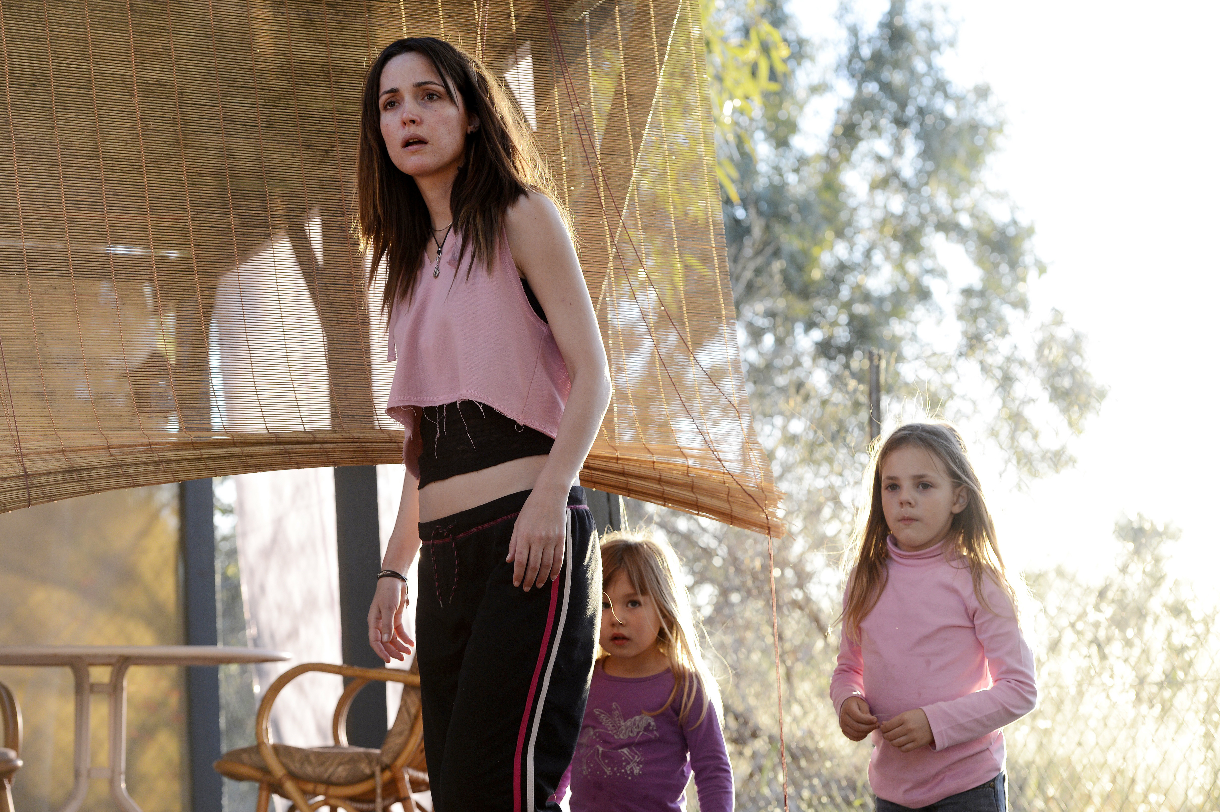 Rose Byrne as RAE with Brittany Hibbert as Brittany and Lily Parker as Lily in The Turning